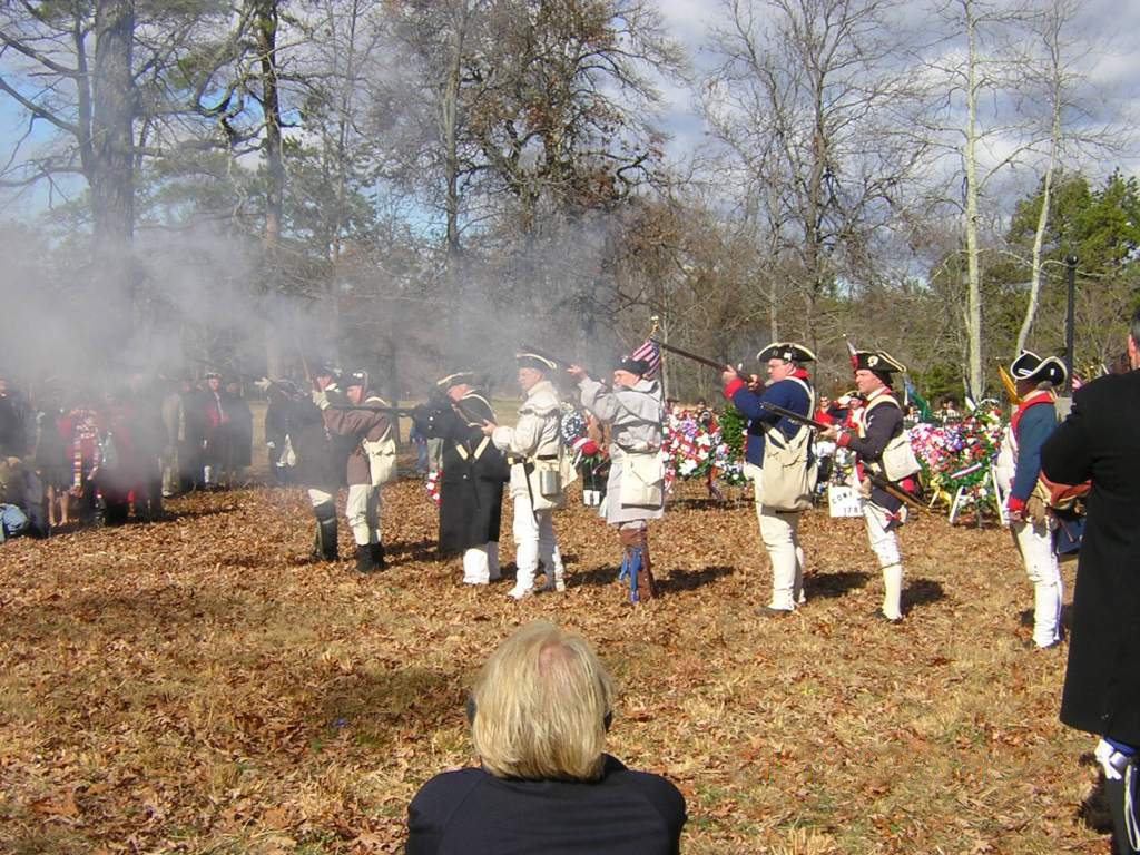 Taken January 14, 2006 at the Cowpens Battlefield, near Gaffney, South Carolina